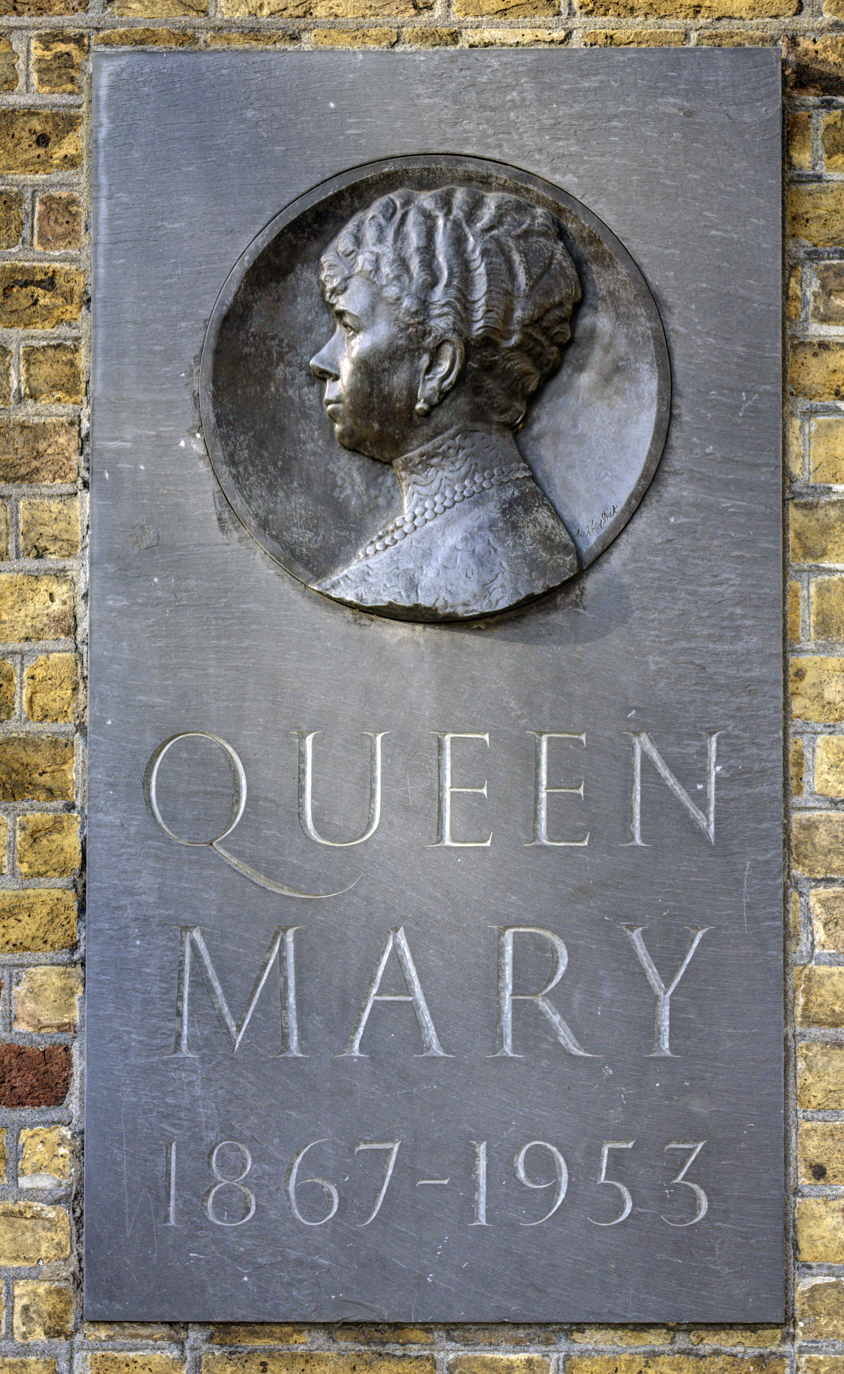 Memorial to Queen Mary, Marlborough Road, Westminster